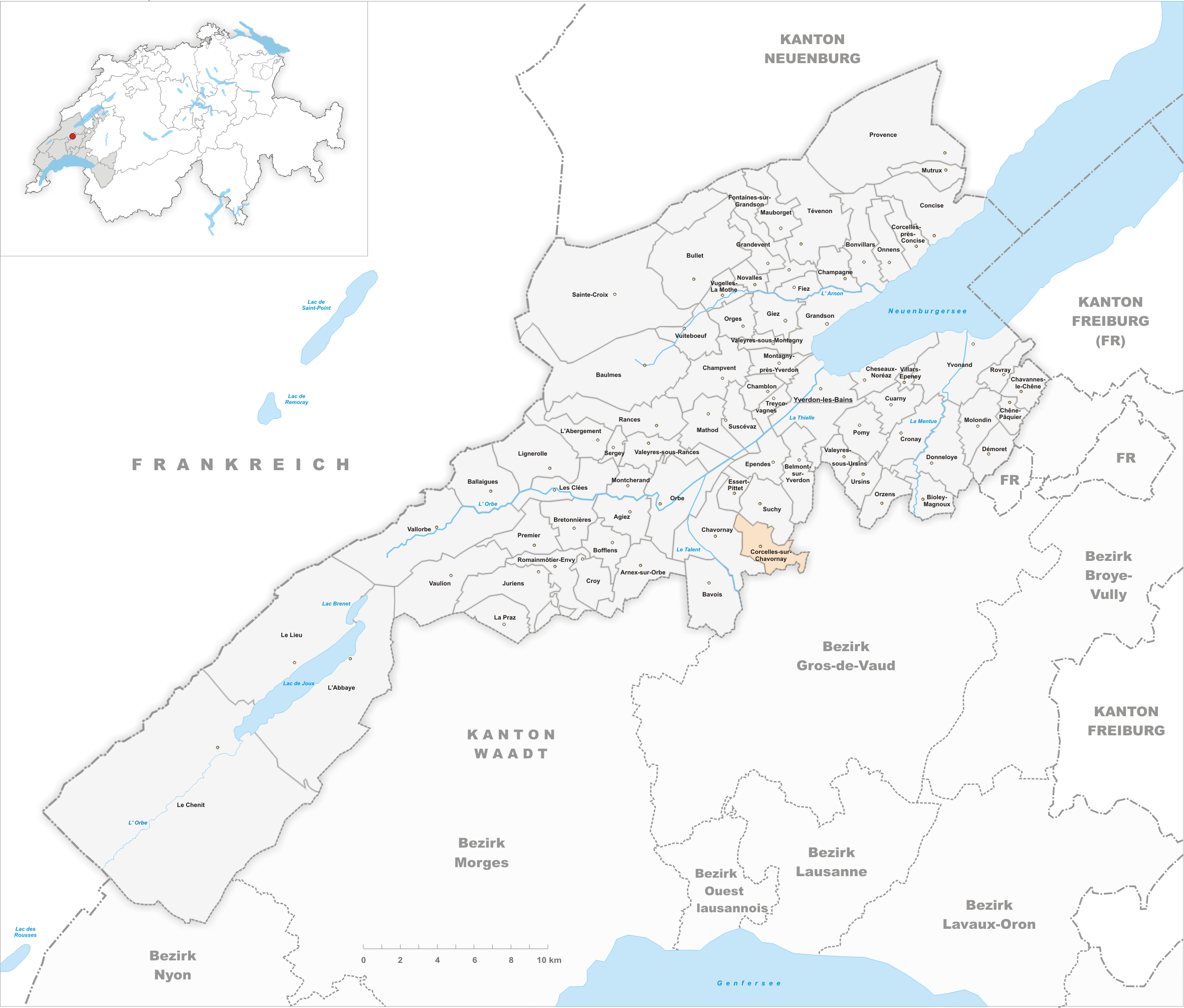 Municipality Corcelles-sur-Chavornay